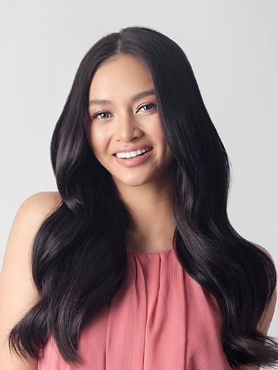 A portrait of Kylie Verzosa as photographed by Jopet Sy on January 26, 2018.